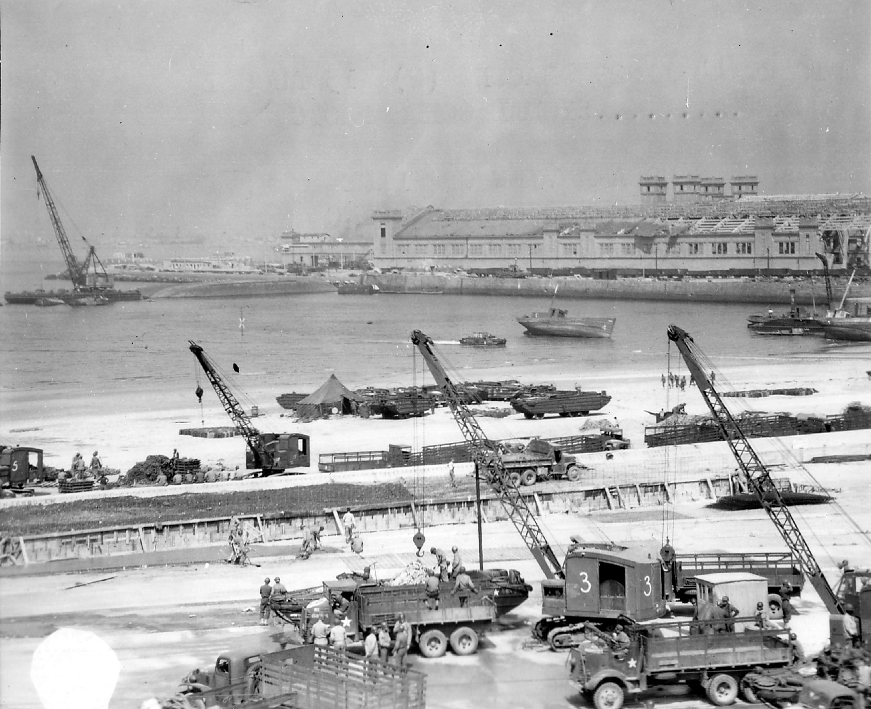 Numerous vehicles and cranes are working on Napoleon Beach to carry out the repair work. On the left soldiers are sitting on the anti-tank wall. In the background, the Cherbourg ferry terminal. The wreck of the cargo ship Le Normand will be used as an unloading dock and will only be refloated on November 8th, 1947.